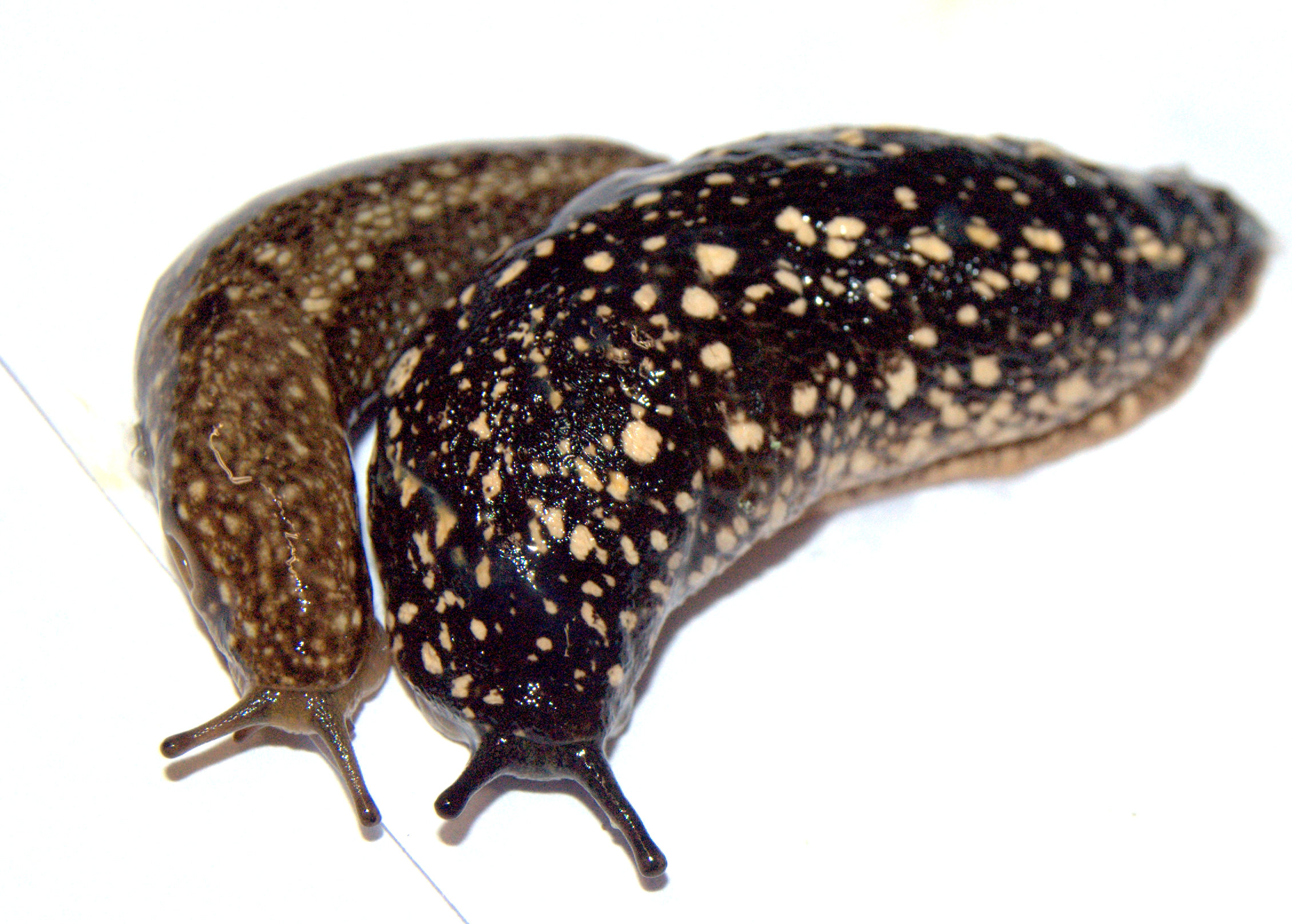 The Kerry slug Geomalacus maculosus occurs in two colour morphs in Ireland. Brown morphs are associated with forest habitats and black morphs are associated with open habitats such as blanket bog or heath.